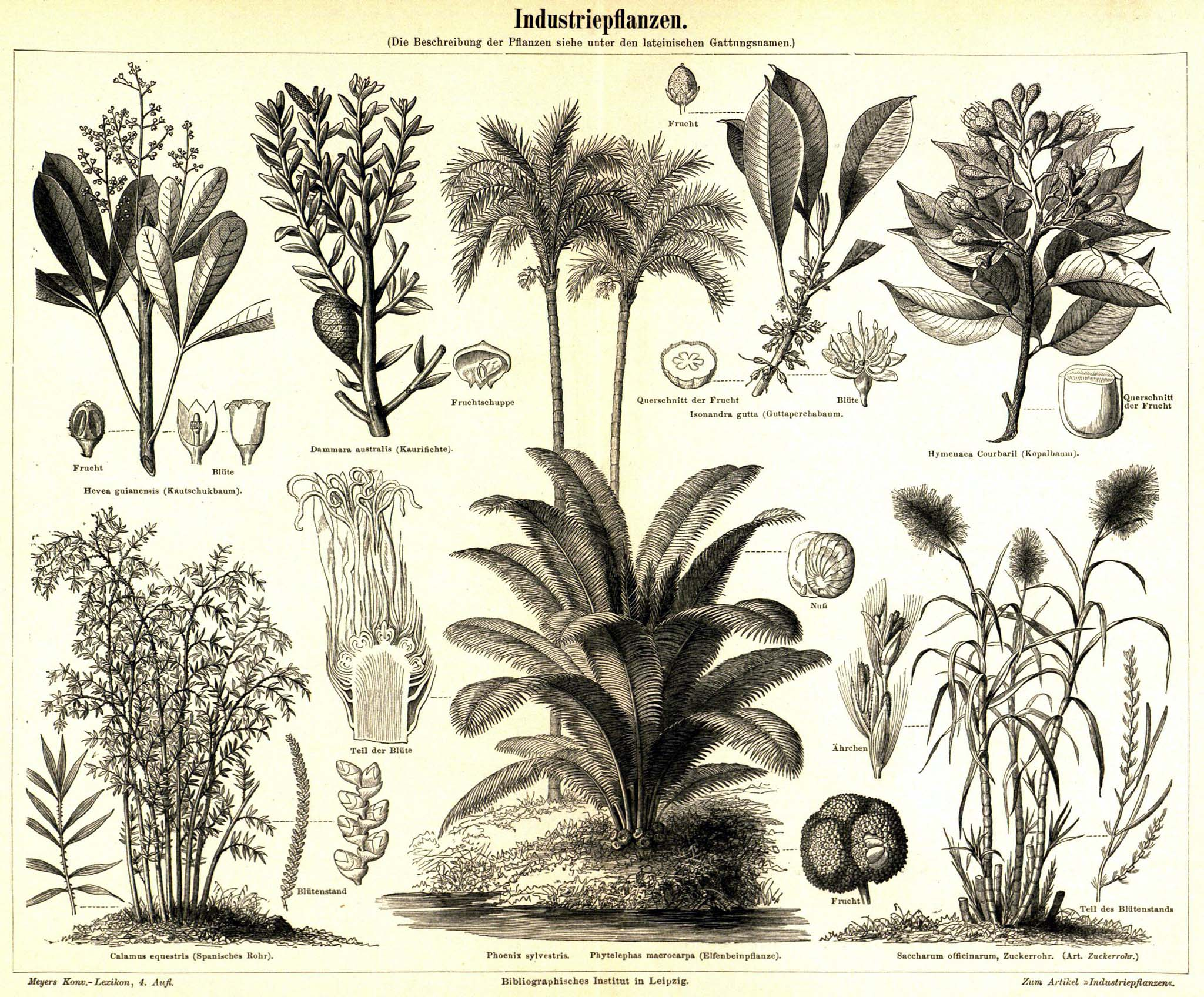 Industrial crops